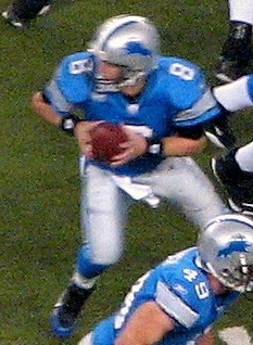 Jon Kitna prepares to hand off to Kevin Jones in the first quarter of the Thanksgiving Day game between Detroit and Green Bay in 2007 at Ford Field.